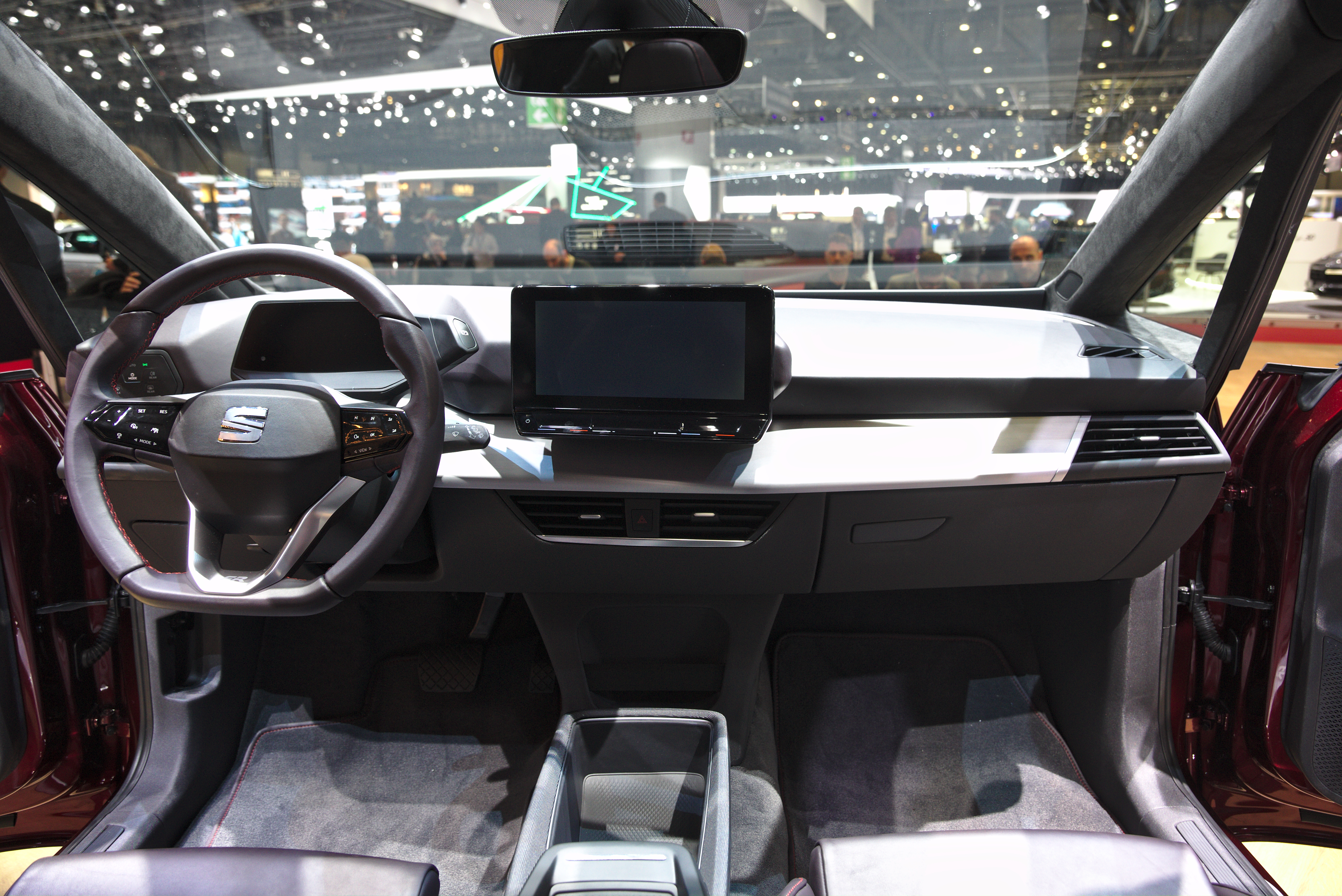 Seat el-Born Concept at Geneva Motor Show 2019